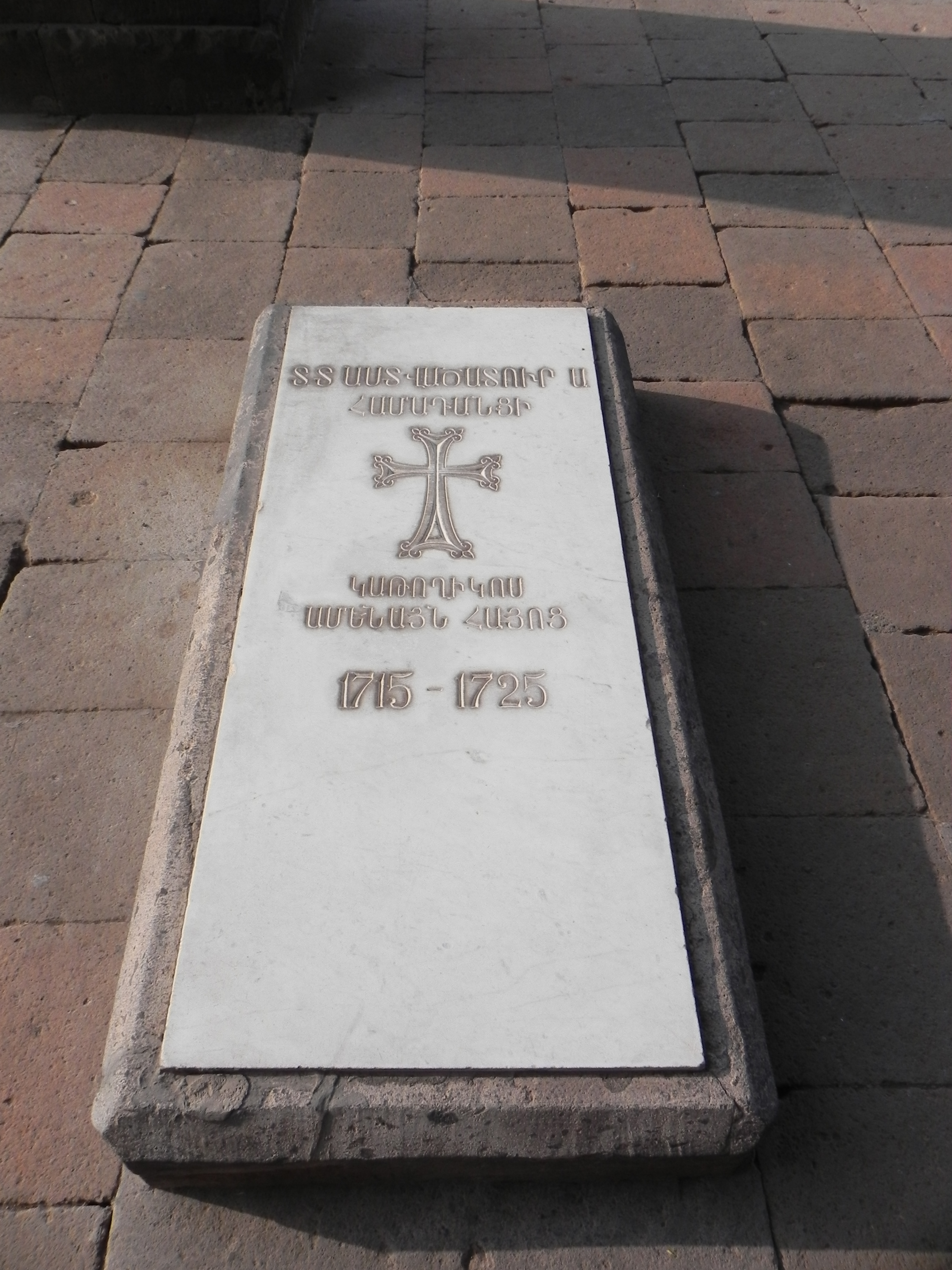 Tombstone of Astvatsatur I, Catholicos of All Armenians at Hripsime church in Armenia